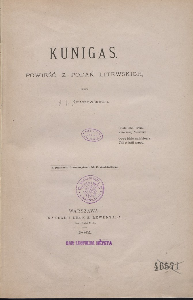 novel